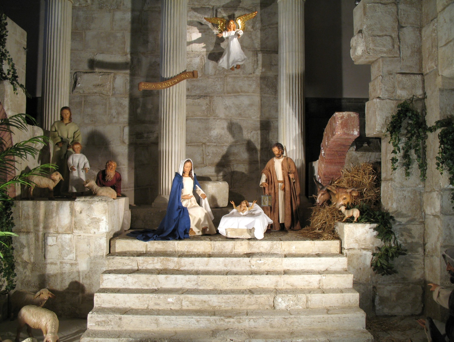 Nativity scene in St Michael catholic parish church of Burtscheid/Aachen, Germany